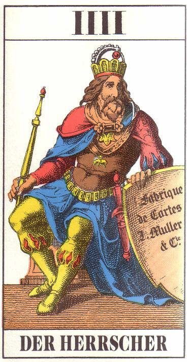 Trump 4 (The Emperor) from the 1JJ tarot deck